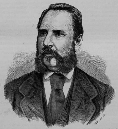 Portrait of Géza Kuun